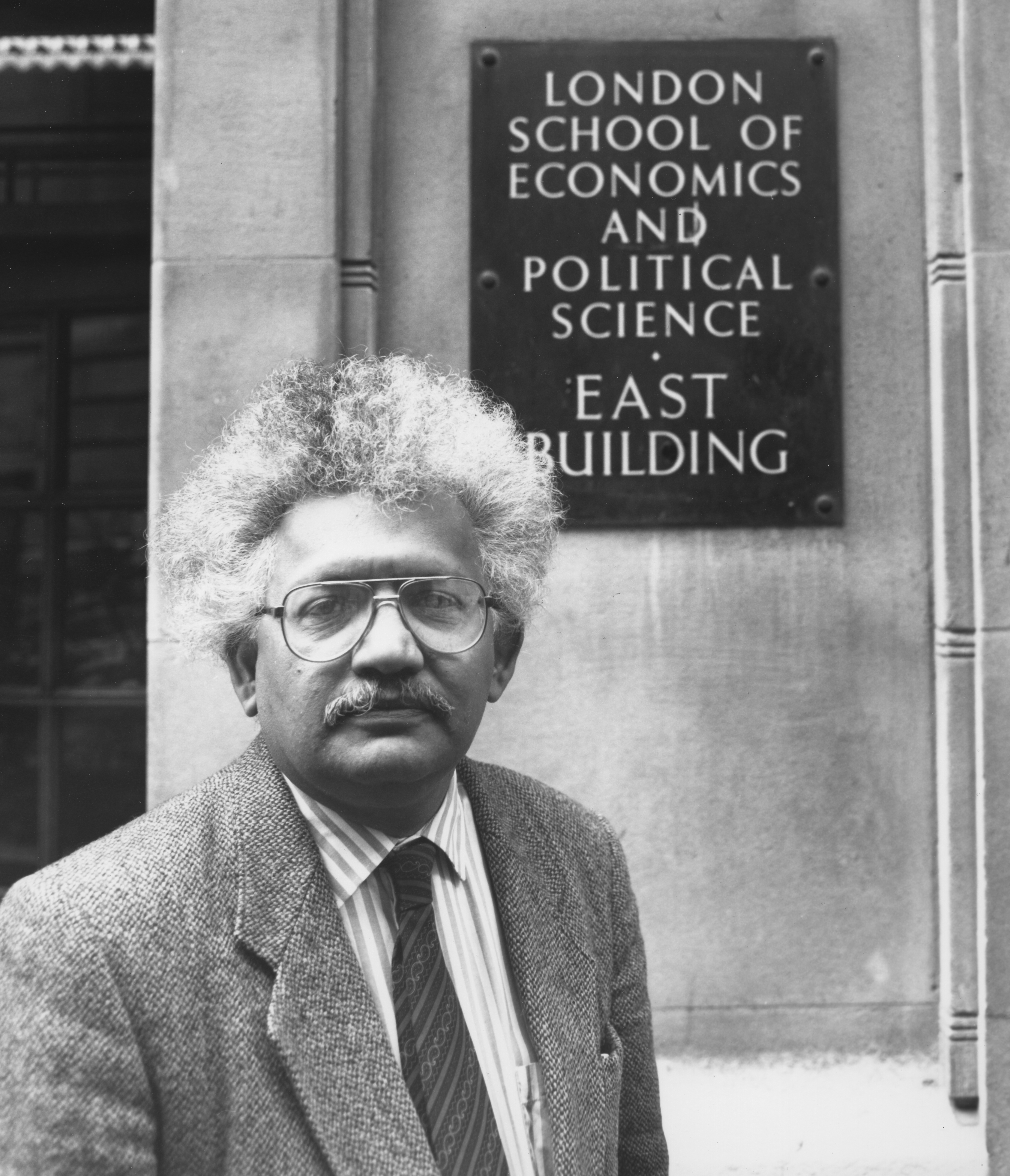 Professor of Economics IMAGELIBRARY/981 Persistent URL